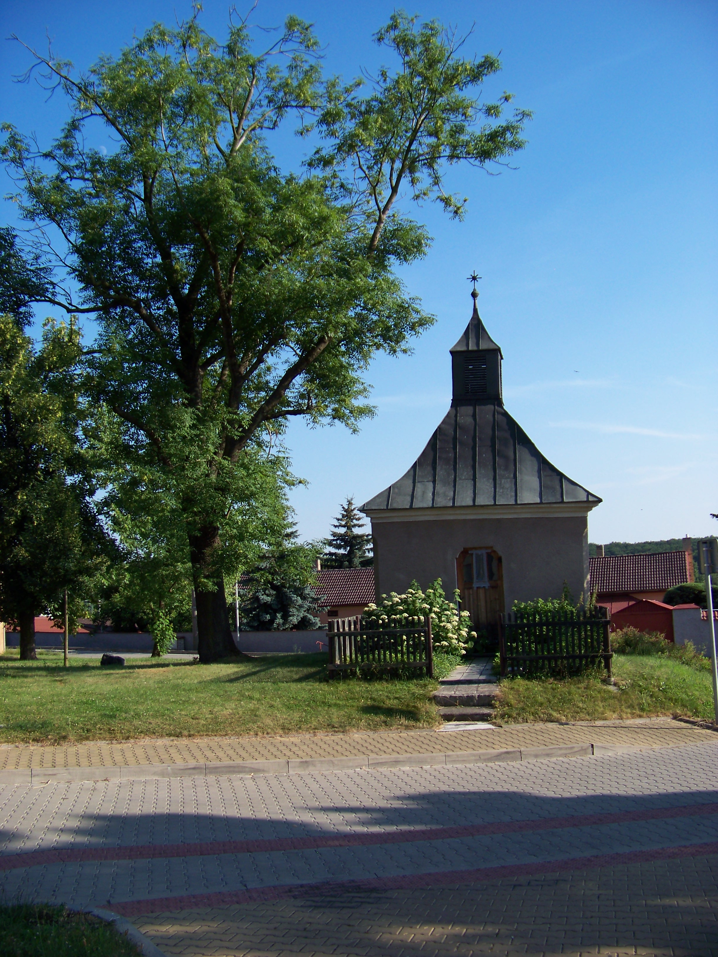 Prague-Horní Počernice. Svépravice, Nad návsí and Šanovská street, a chapel. - OpenStreetMap(Info)